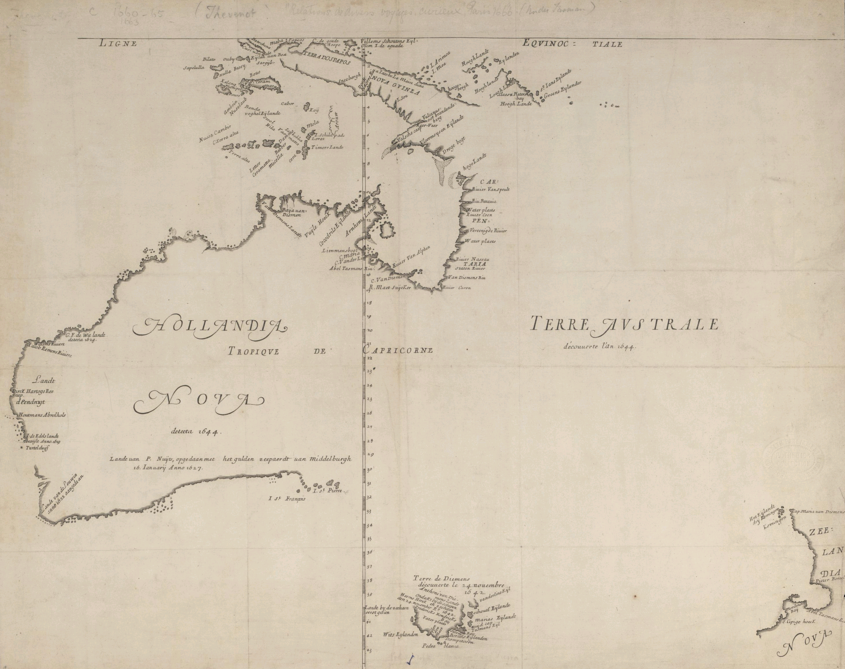 Melchisedech Thevenot (1620?-1692): Hollandia Nova detecta 1644; Terre Australe decouuerte l'an 1644, Paris: De l'imprimerie de Iaqves Langlois, 1663 Based on a map by the dutch cartographer Joan Blaeu. Langlois, 1663.